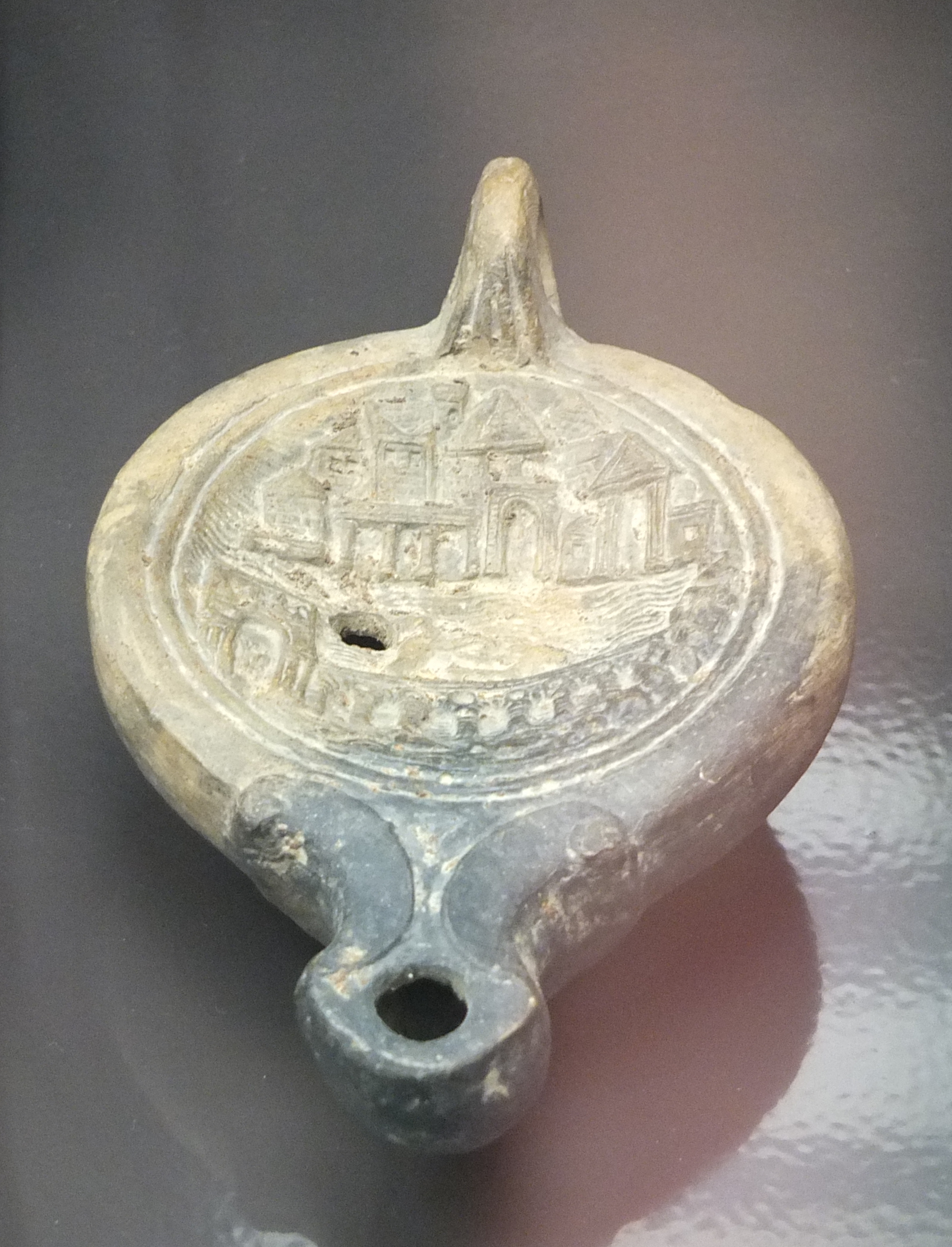 Earthenware oil lamp with a depiction of a port (Alexandria?), Roman, 1st century. Musée Royal de Mariemont Inv. Ac 726.8